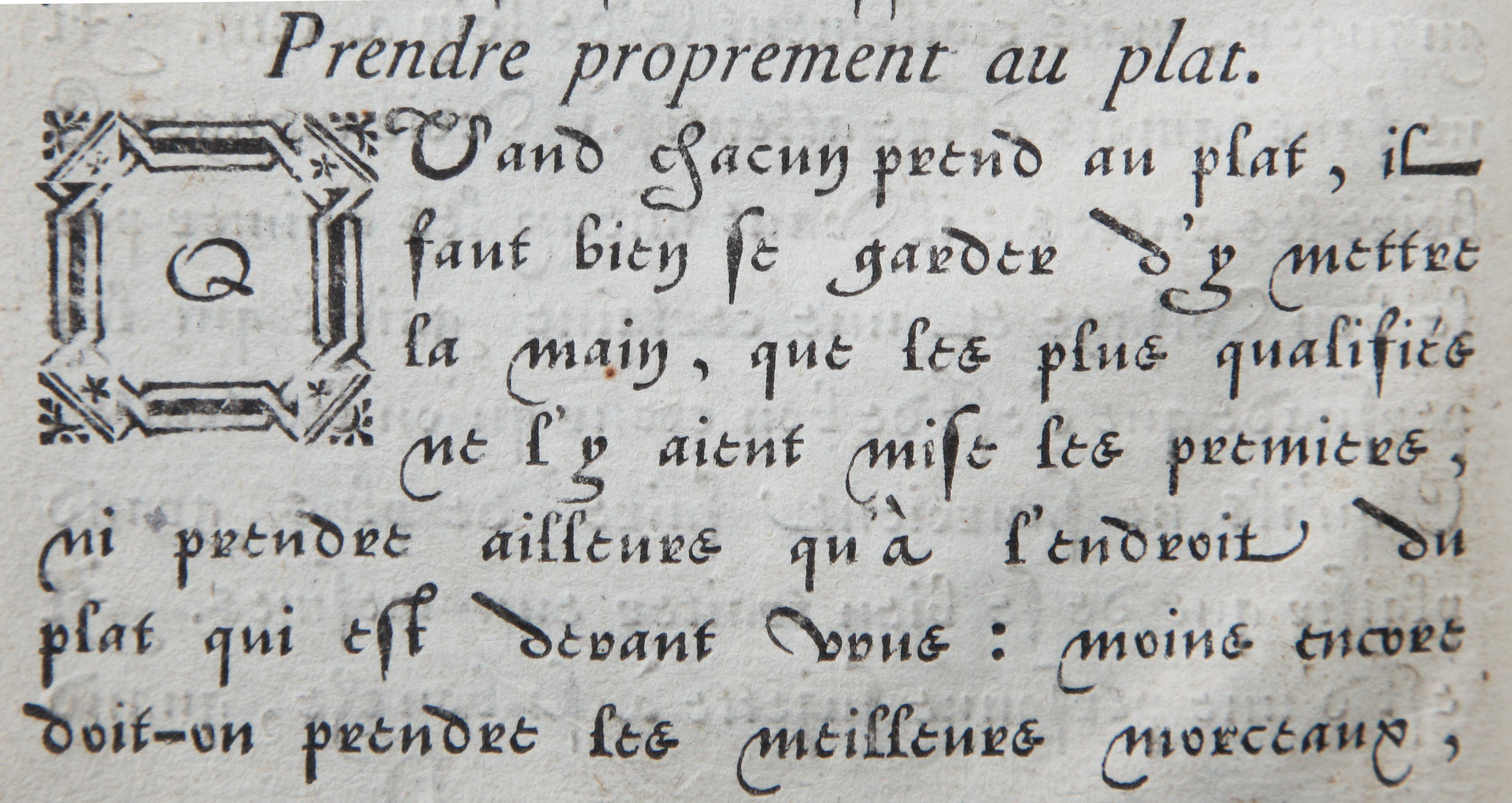 Civilité types